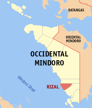 Map of Occidental Mindoro showing the location of Rizal